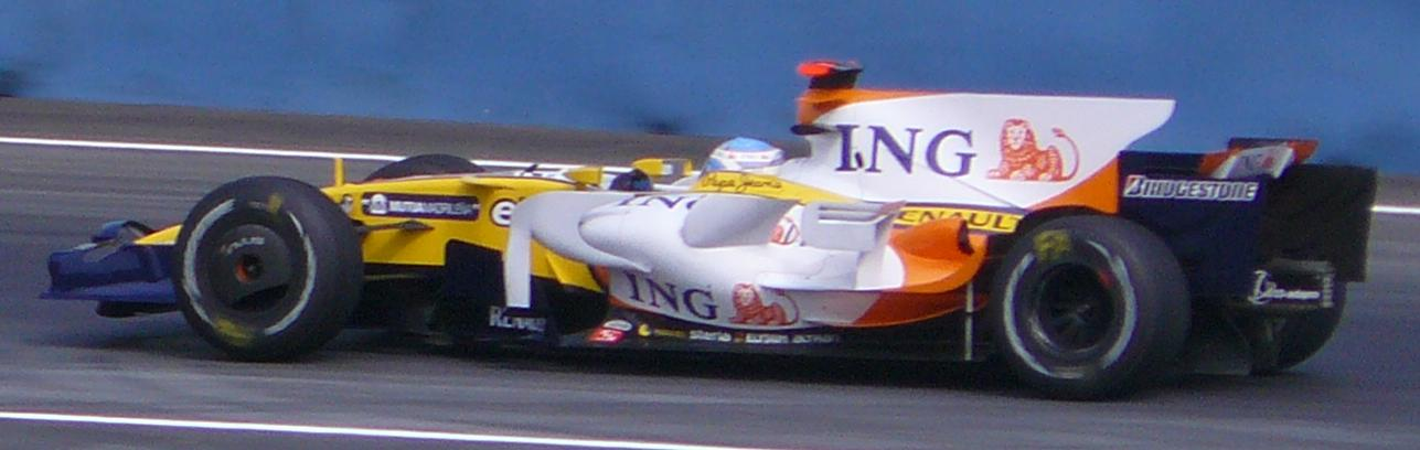 Fernando Alonso driving for Renault F1 at the 2008 European Grand Prix.